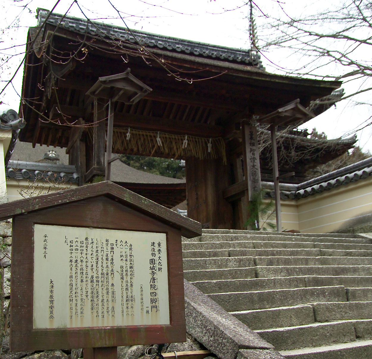 This gate is the Shikyaku-mon, the four-legged gate at Mii-dera, a Buddhist temple in Otsu, Shiga Prefecture, Japan. Beyond it is the three-story pagoda. I took the photo and contribute my rights in it to the public domain; individuals and organizations retain rights to images in it.